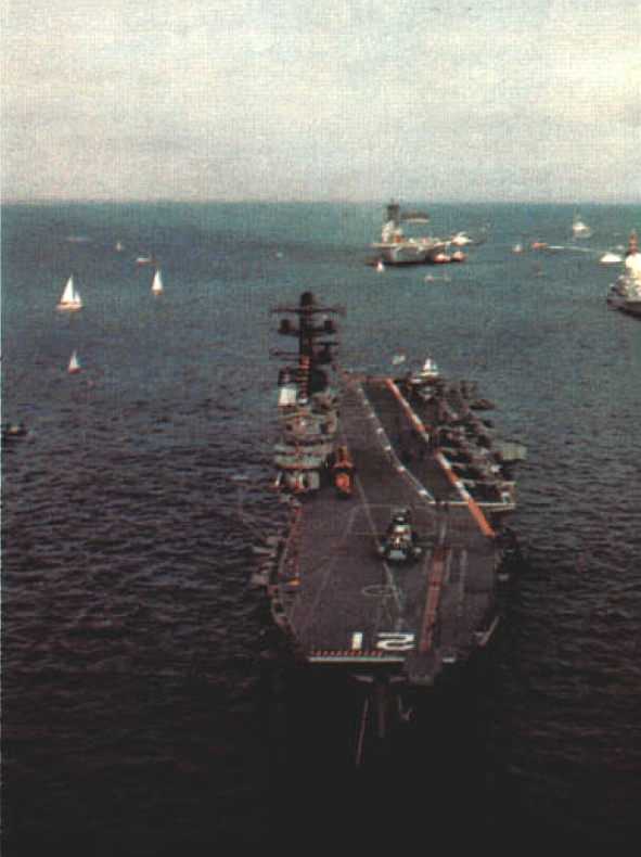 The Royal Australian Navy aircraft carrier HMAS Melbourne (R21) at the 1977 Spithead Fleet Review on occasion of the Silver Jubilee of the reign of Queen Elisabeth II. HMS Ark Royal (R09) is visible in the background.